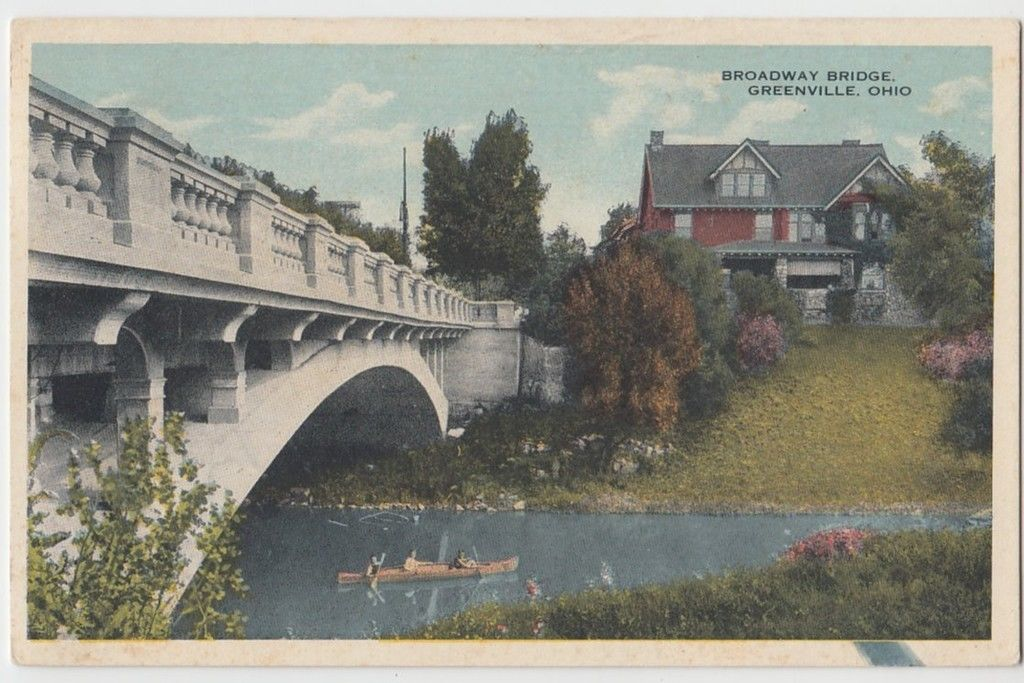 A postcard of the Broadway Bridge, which carries Broadway (State Routes 49 and 571) over Greenville Creek in Greenville, Ohio, United States. Image shows the southwestern (upstream) side of the bridge. Built in 1909, it is listed on the National Register of Historic Places.